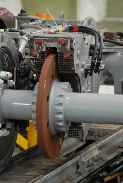 Eddy current brake equipment on Shinkansen series 700.